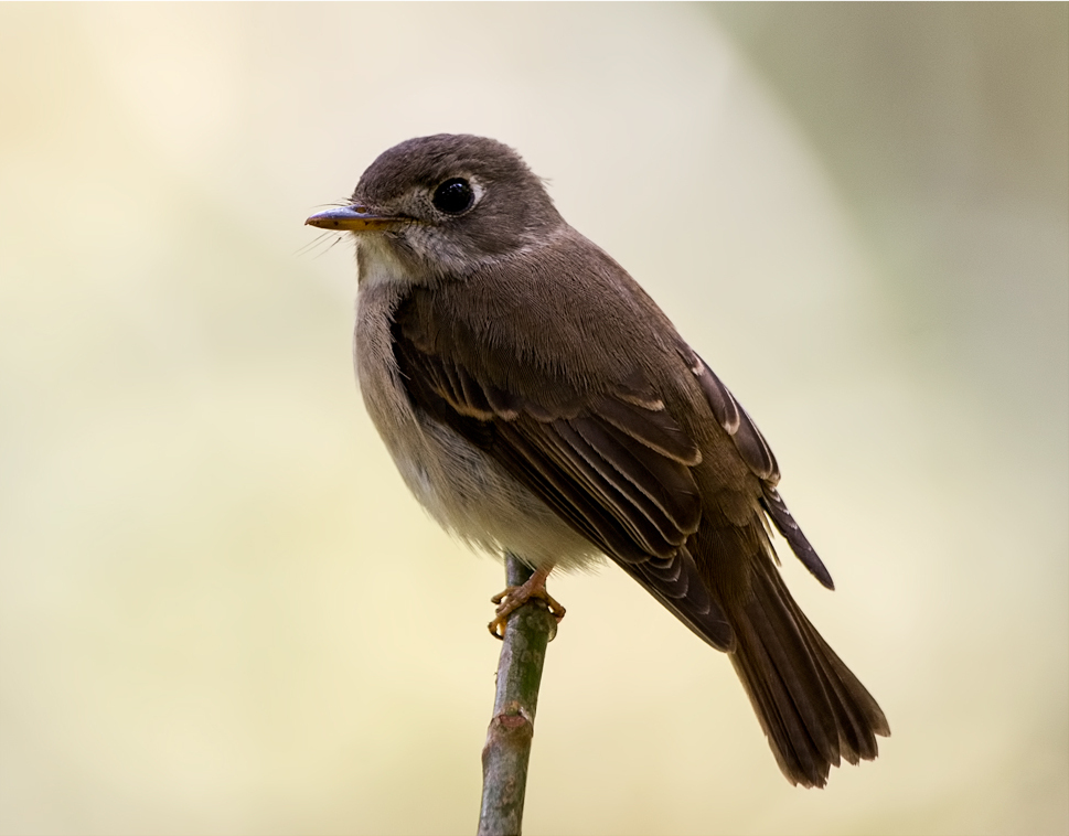 The Asian Brown Flycatcher Muscicapa latirostris A winter migrant to The Nilgiris Ht 2200mtrs Tamil Nadu State in India